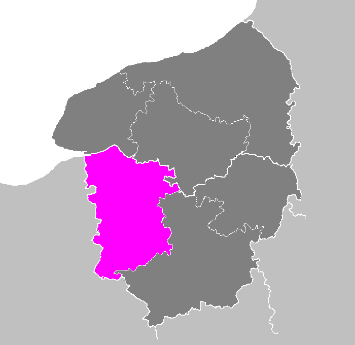 Maps of arrondissements and cantons of France: Arrondissement de Bernay.PNG